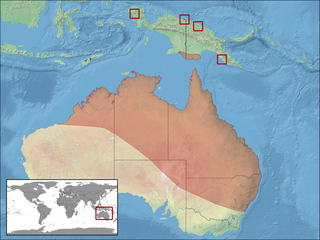 Geographic distribution of Litoria caerulea (Native: Australia; Indonesia; Papua New Guinea)